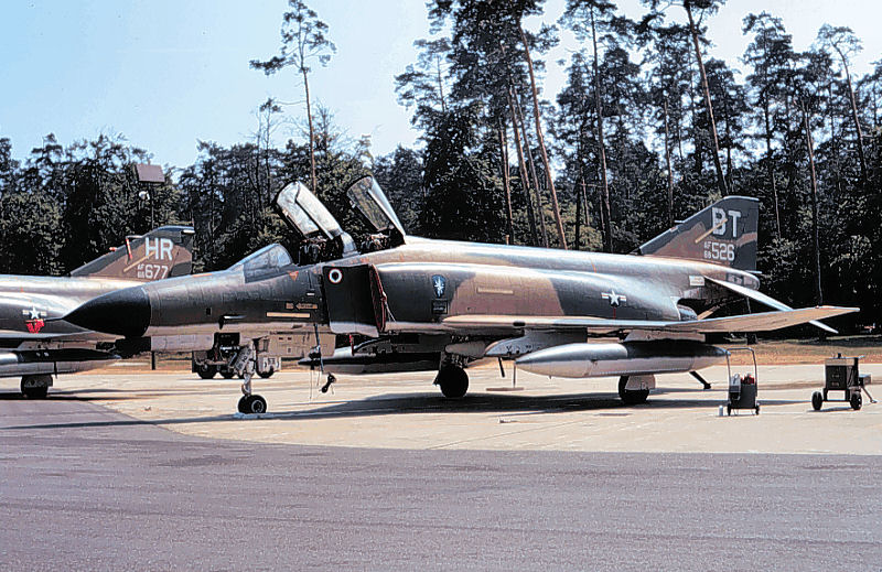 53d Fighter Squadron - McDonnell F-4E-30-MC Phantom - 68-0526